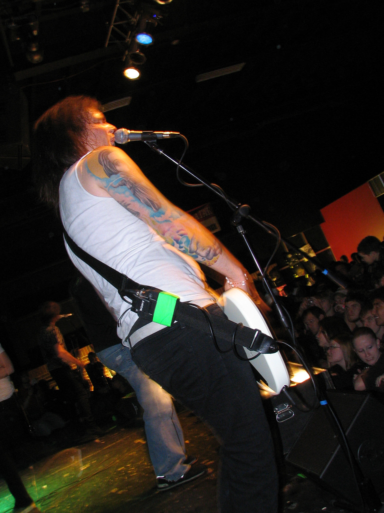 Haste The Day